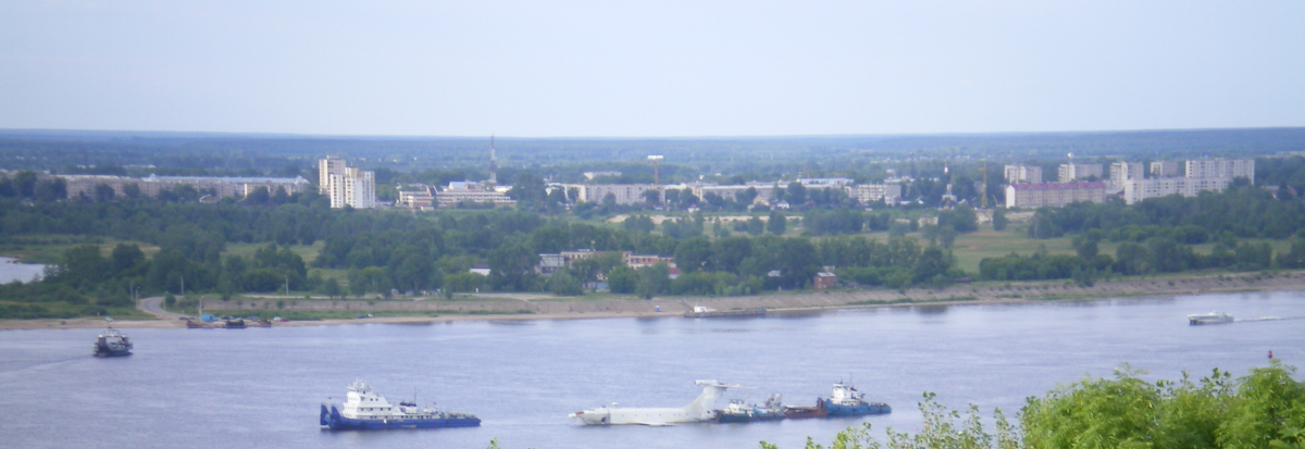 Panorama of Bor, Nizhny Novgorod Oblast